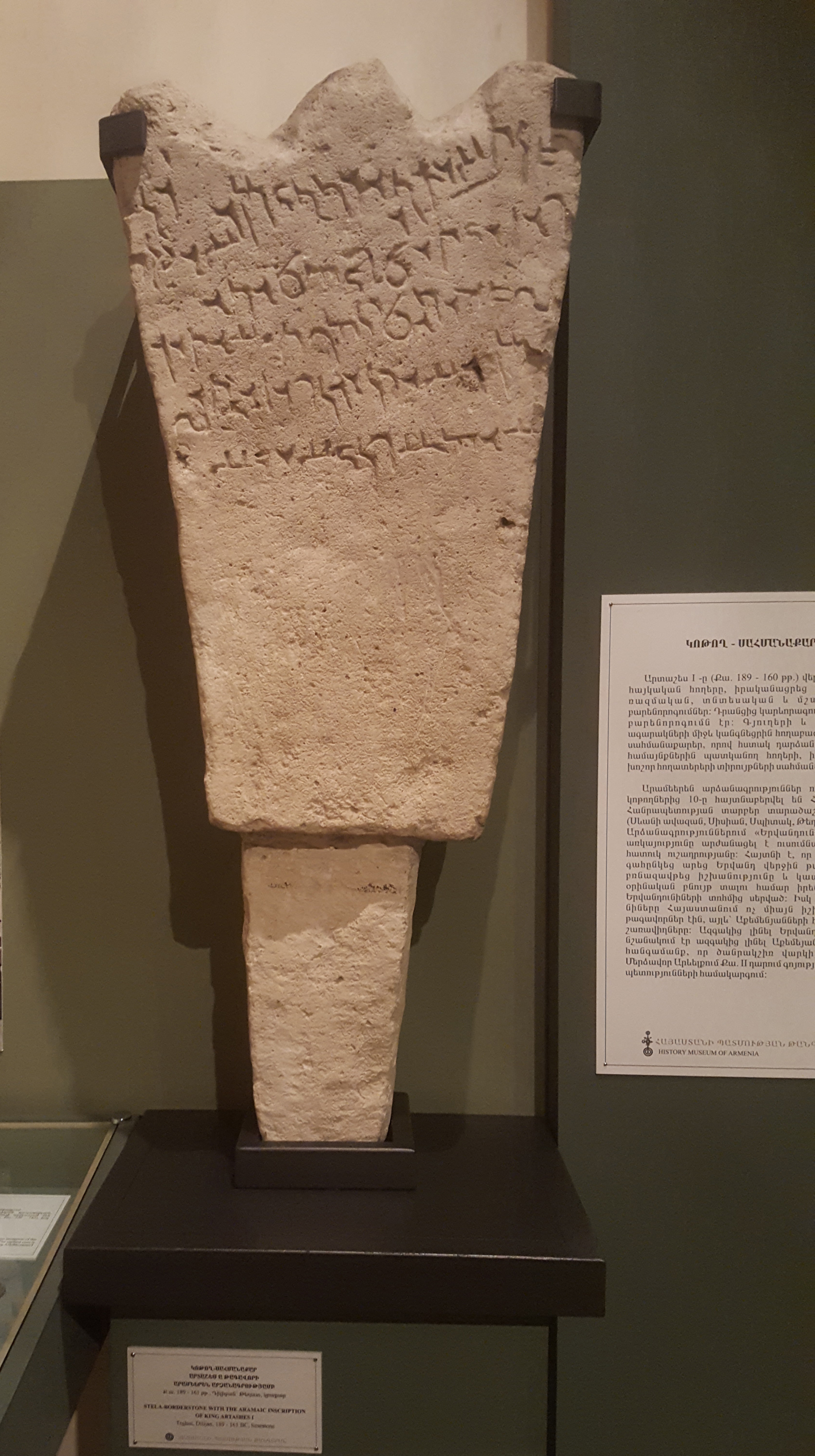 Borderstone with Aramaic inscription of king Artaxias I. History Museum of Armenia